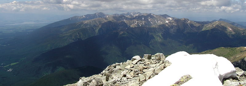 Western Tatras from Krivan